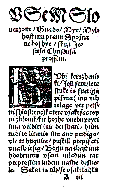 First book printed in slovenian language - Catechismus from 1550/51